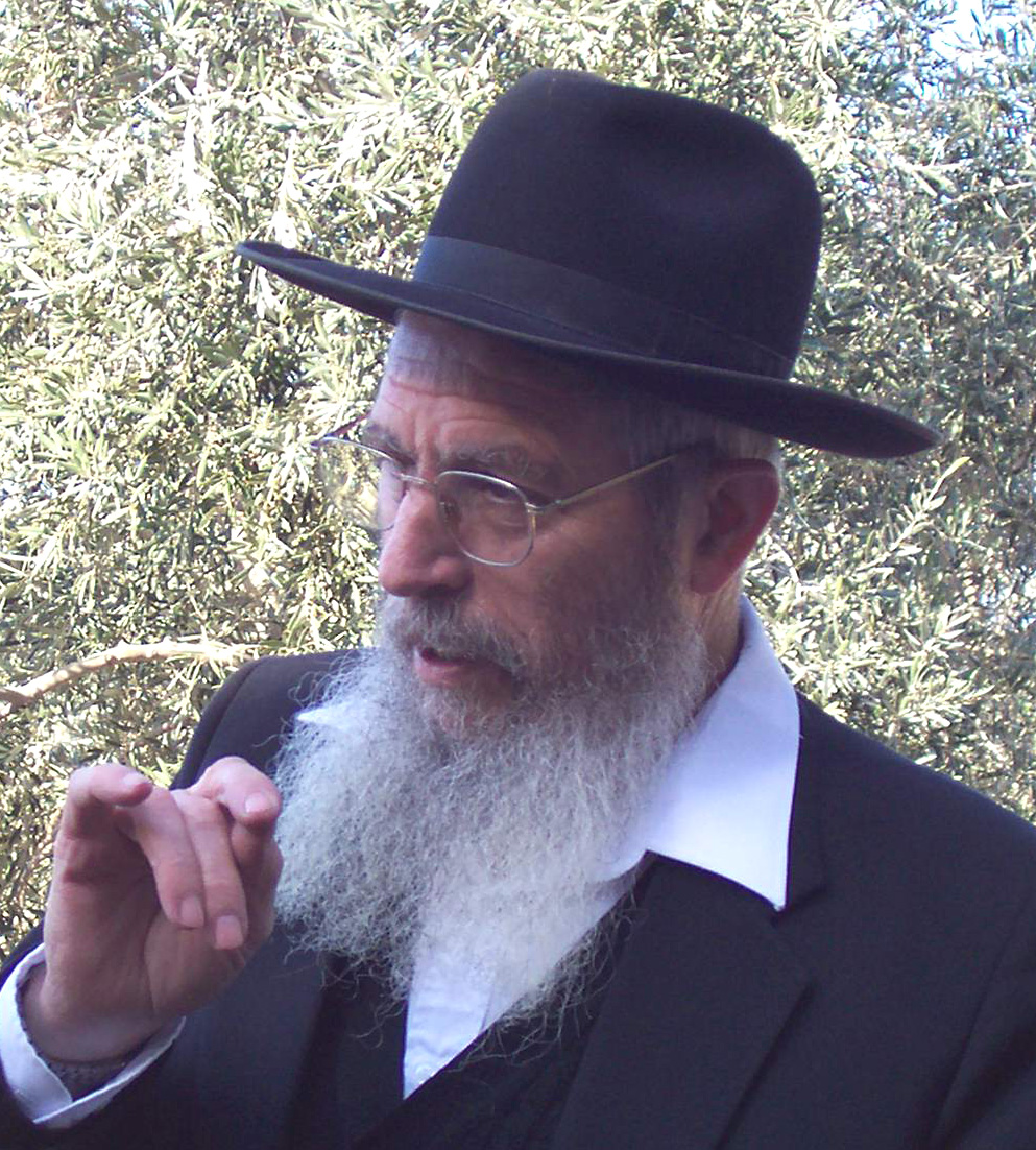 Picture of raabi Yisrael Ariel.